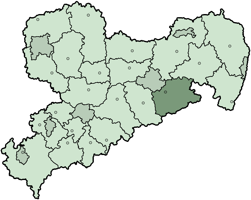 Map of the state Saxony in Germany before 2008, district Sächsische Schweiz highlighted.